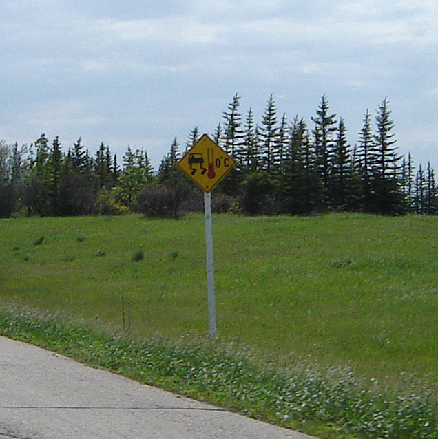 Slippery When Frozen Road Signage Photo taken from Saskatchewan Highway 11, Louis Riel Trail travelling south from Saskatoon to Regina